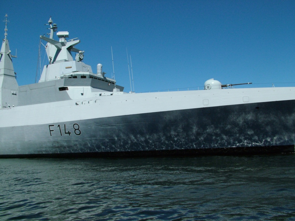 Not the Amatola (which has just been commisioned) but one of the others.